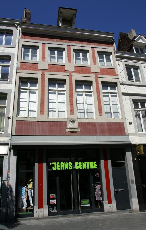 National monument no. 27301 - Maastrichter Brugstraat 26, Maastricht, The Netherlands